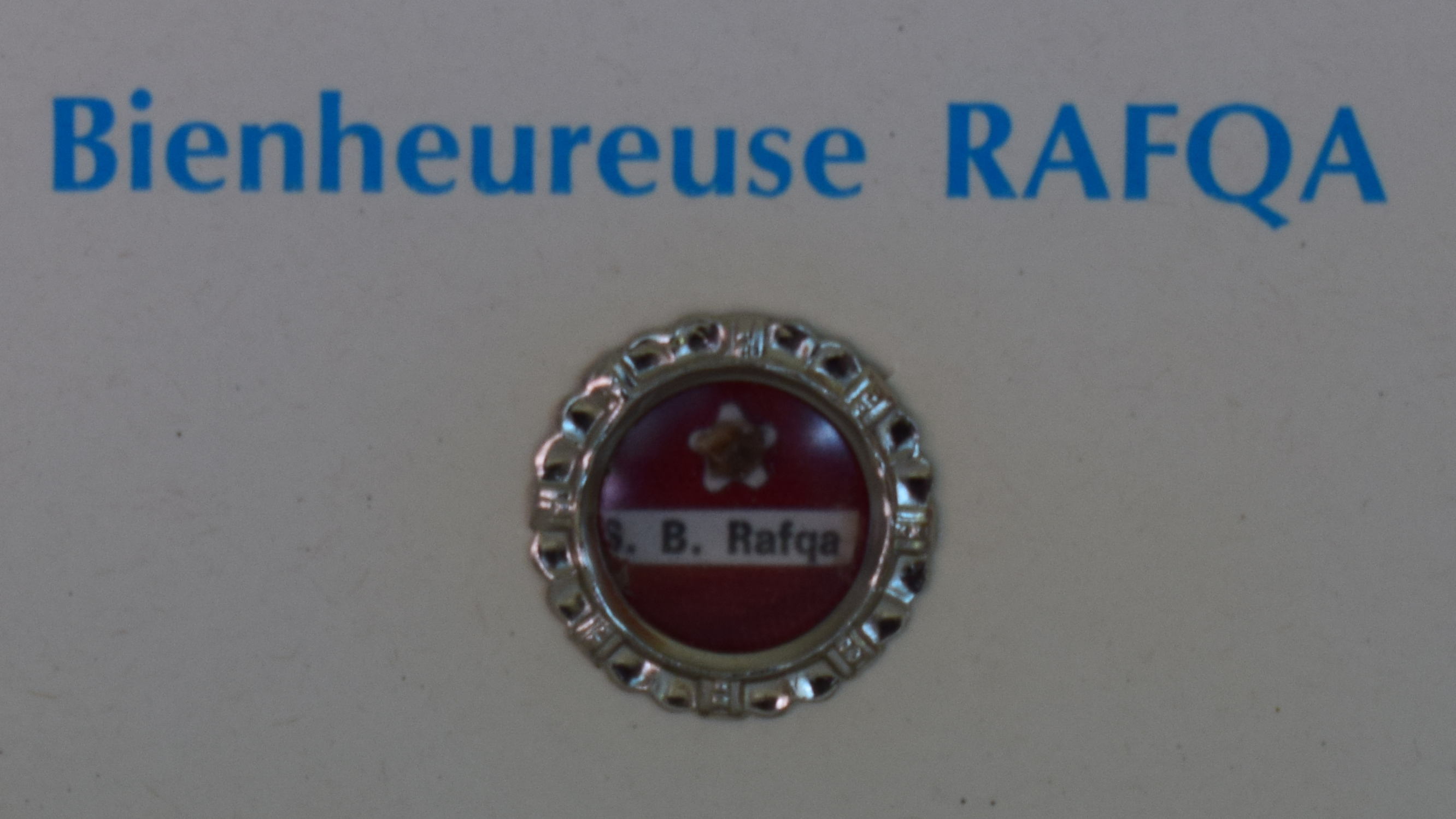 St. Raymond Maronite Cathedral (St. Louis, Missouri) - relic of Rafqa Pietra Choboq Ar-Rayès